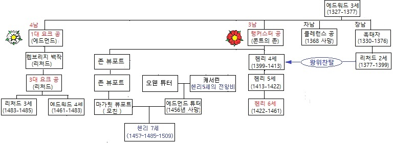 henry tutor 7